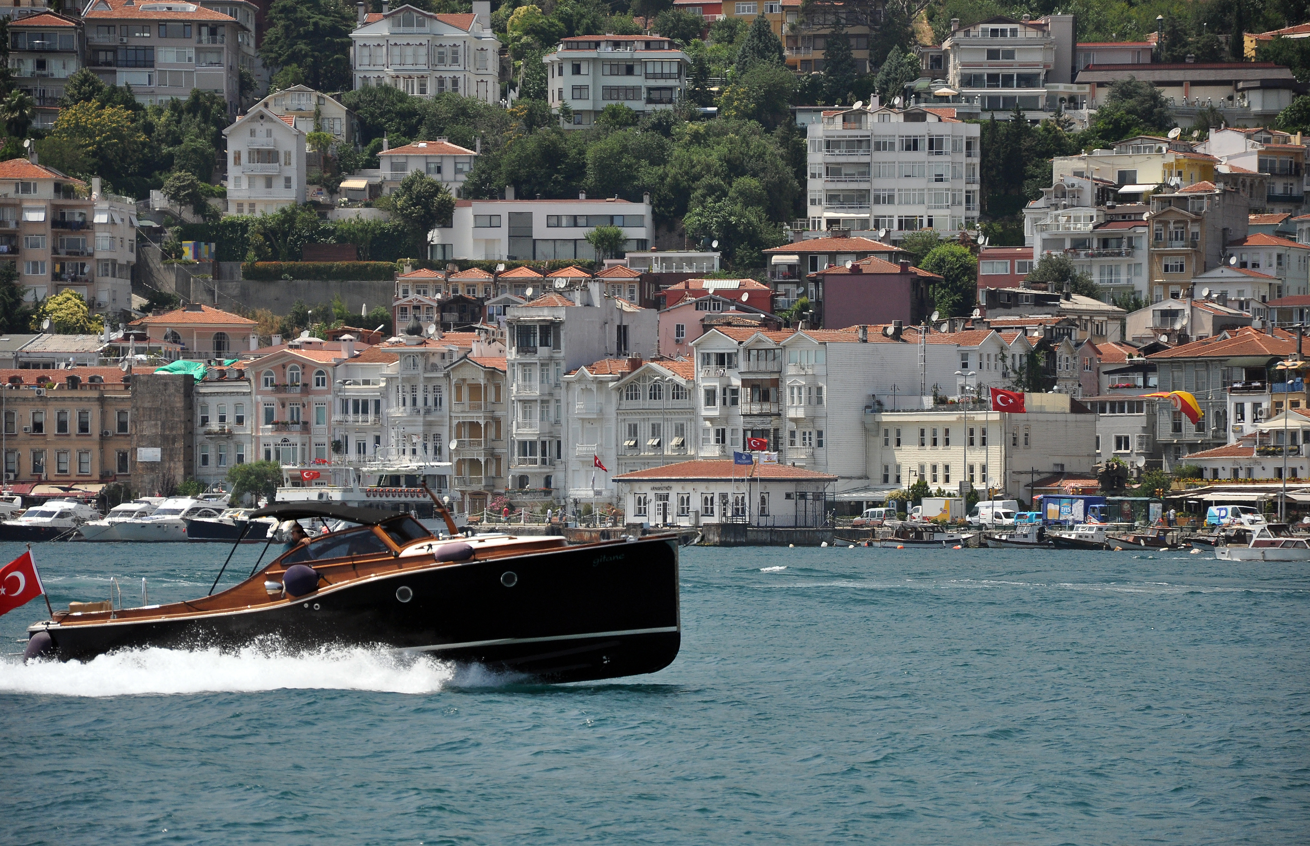 Arnavutköy quarter of Istanbul on the Bosphorus, Turkey.